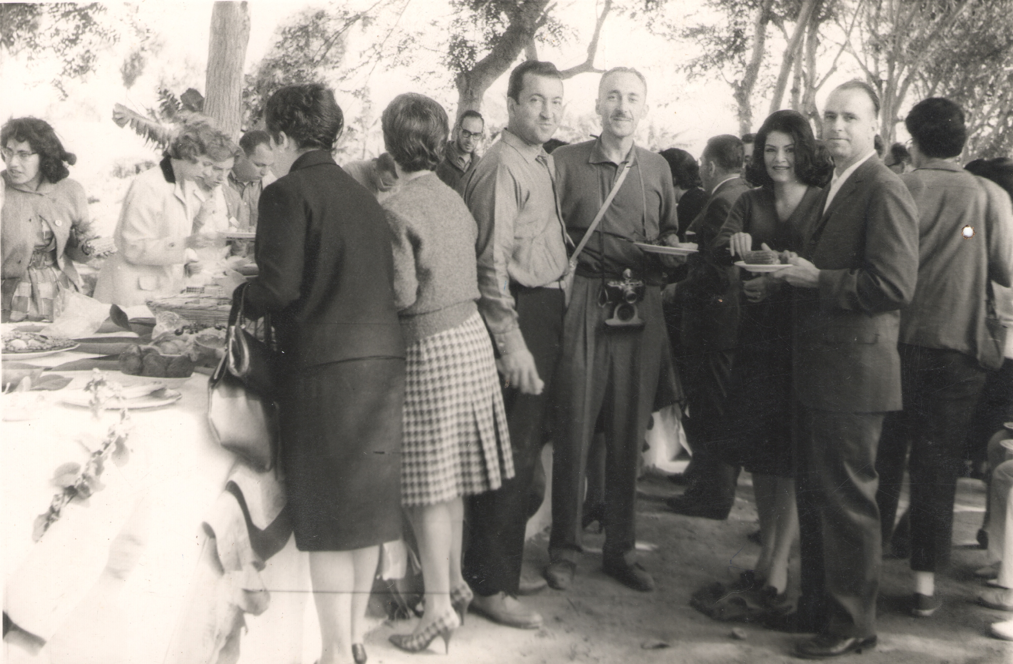 Proyecto Hope